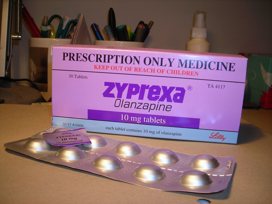 Zyprexa